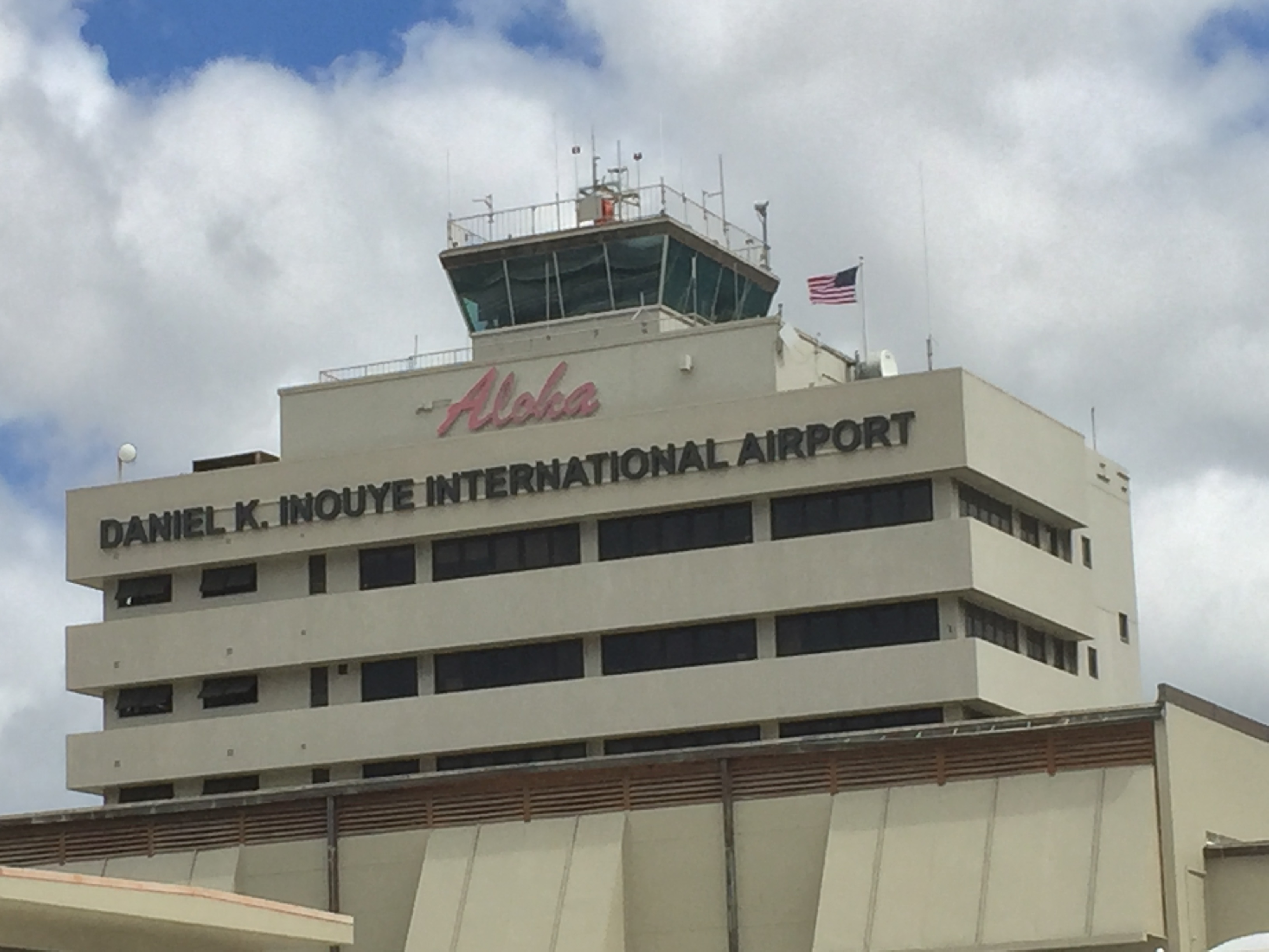 Daniel K. Inouye International Airport sign on the airside of the old control tower